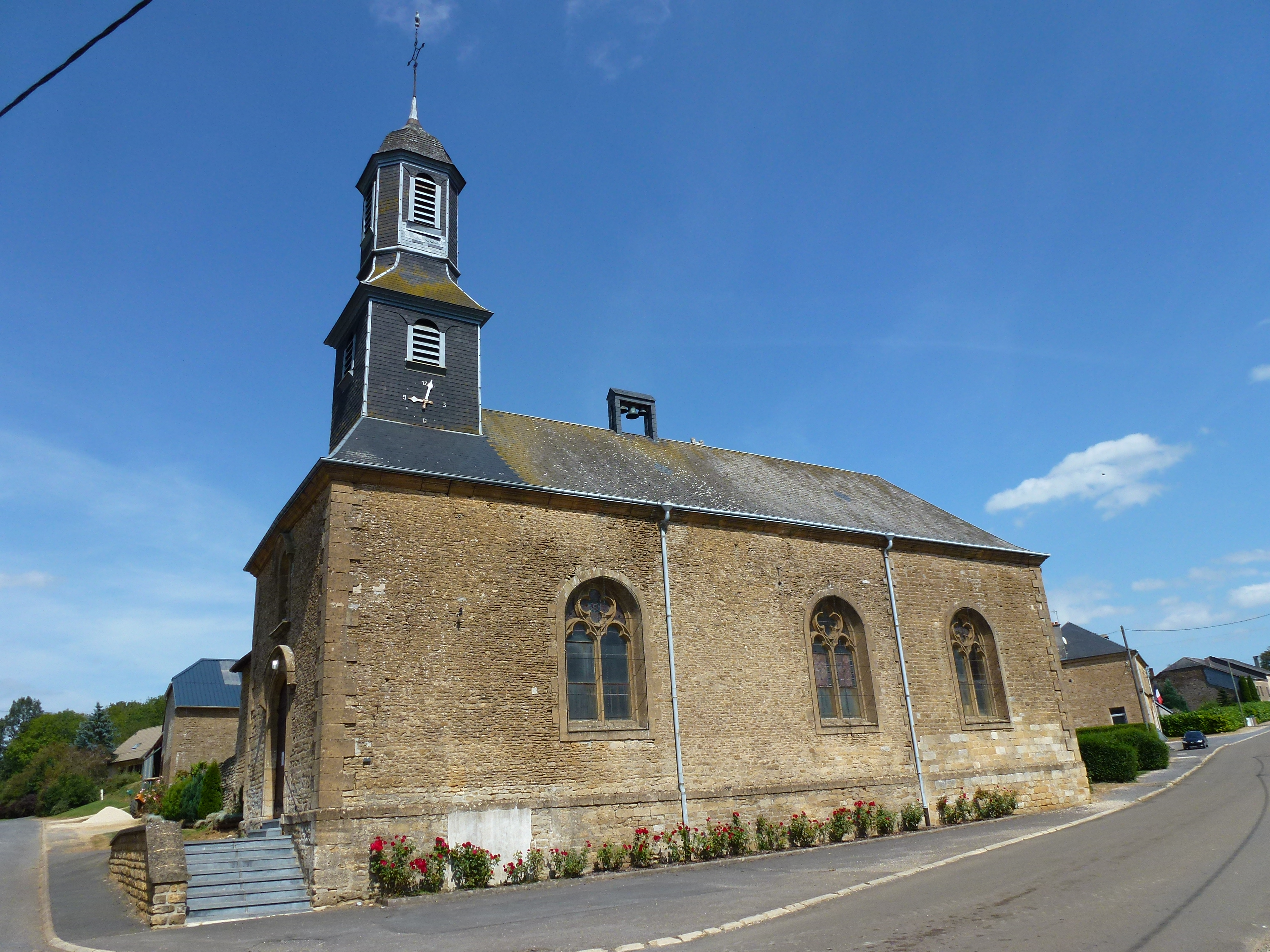 Singly (Ardennes) église, vue latérale